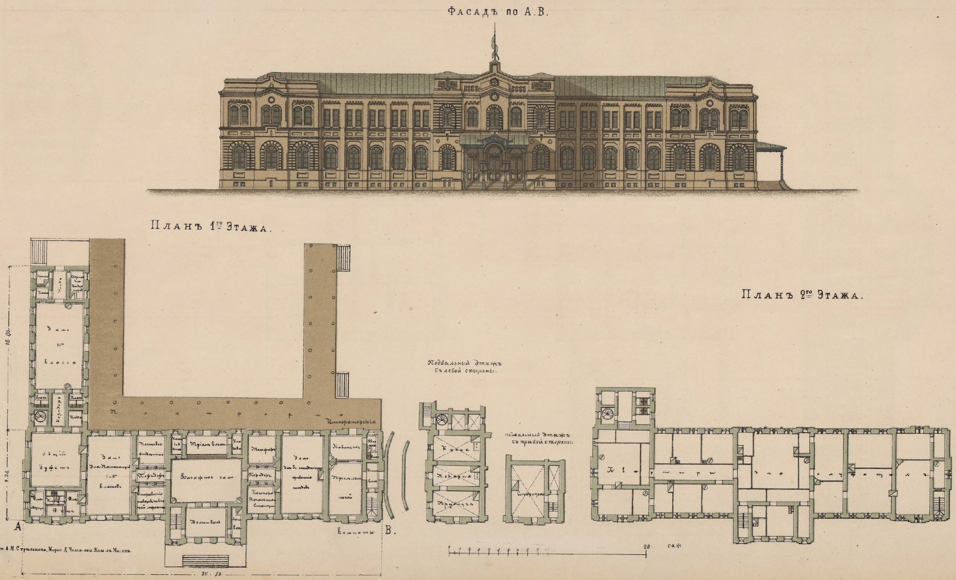 Moscows station. Moscow–Brest railway. Russian Empire